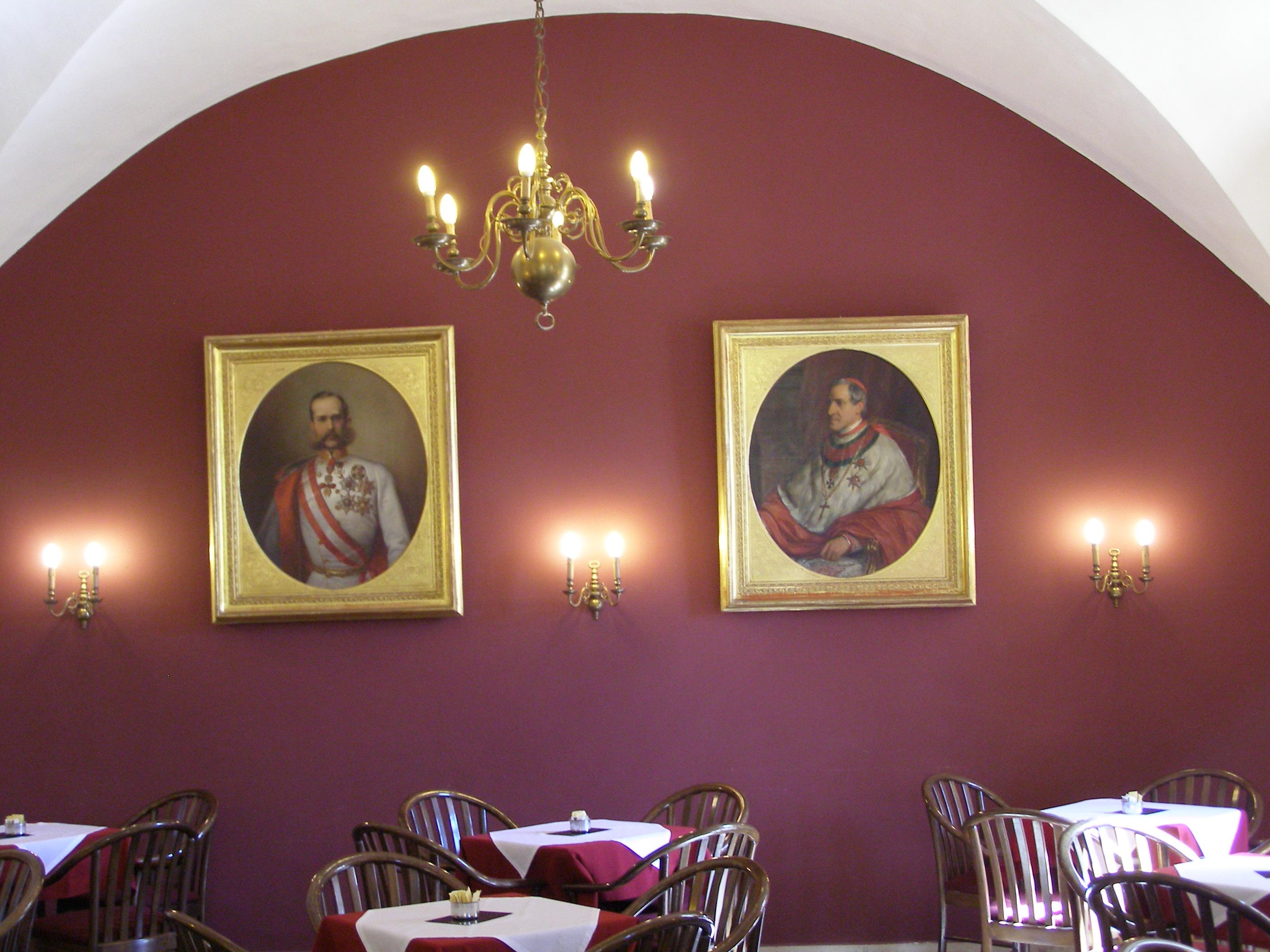 Café inside the Austrian Hospice in Jerusalem. Left painting: Emperor Francis Joseph I. of Austria, right painting: Cardinal Josef Othmar Ritter von Rauscher.